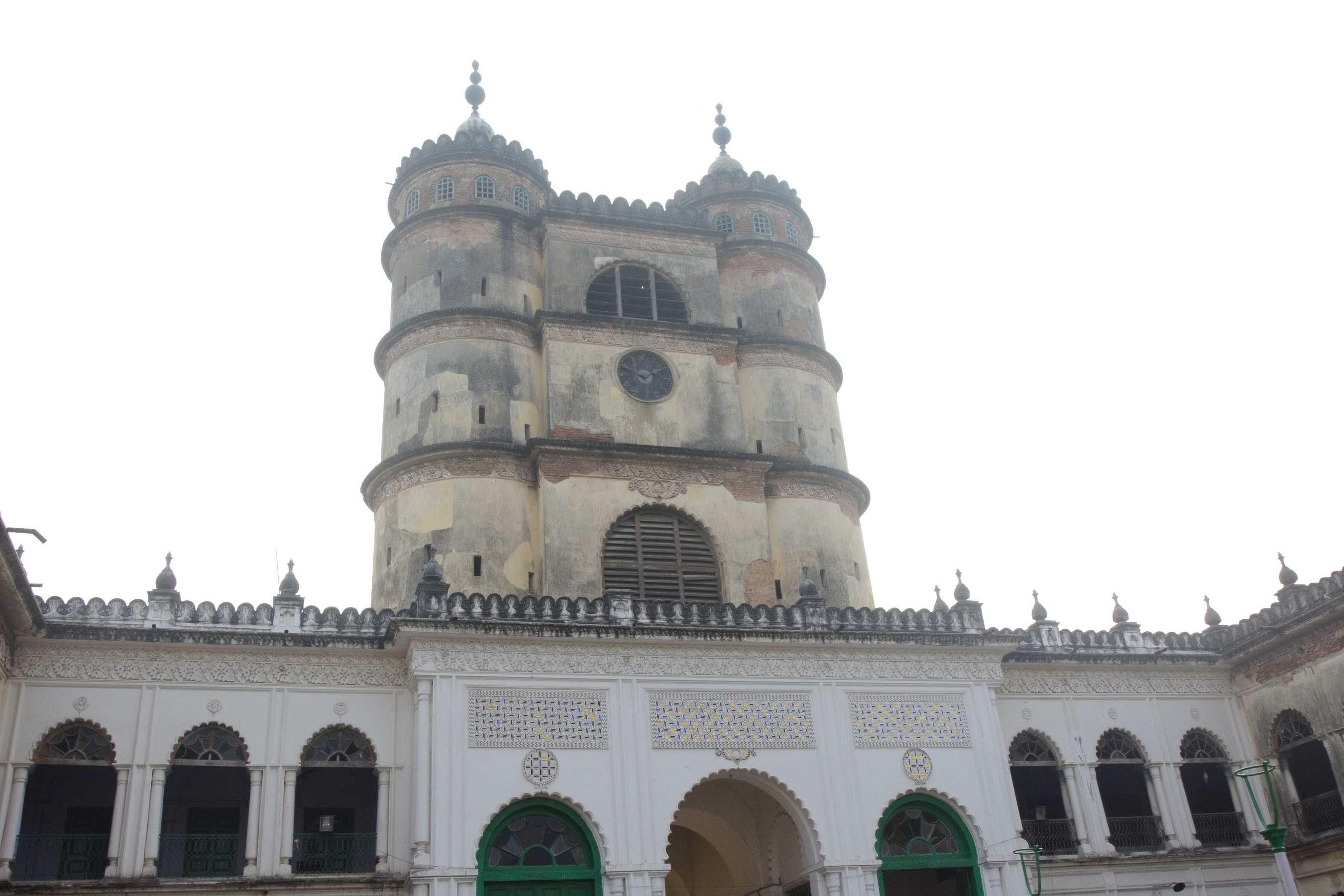 Imambara of Hooghly.